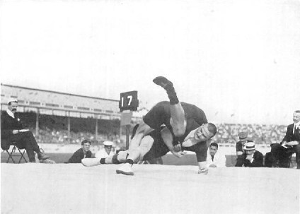 Wrestling at the 1908 Summer Olympics – Men's Greco-Roman light heavyweight final. Verner Weckman (Finland) (over) against Yrjö Saarela (Finland) (under). White City Stadium, 22 July 1908.